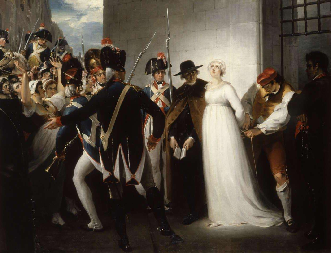 Marie-Antoinette appears in the center of the picture in a white dress and wearing a linen cap. This angelic habit is enhanced by a bright light and contrasts with the dark clothes of those around her.